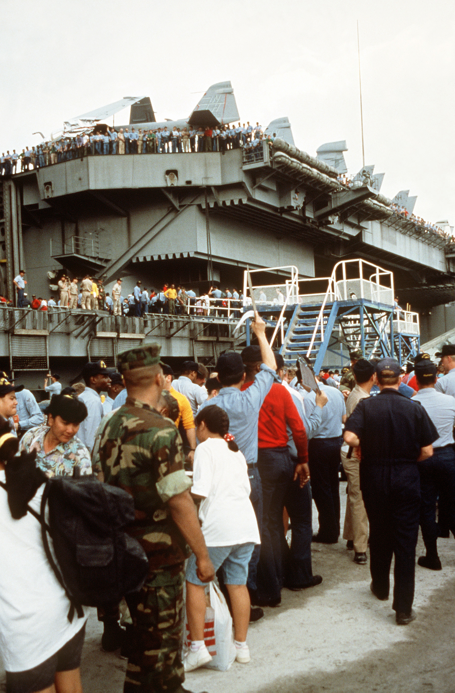 U.S. military dependents board the nuclear-powered aircraft carrier USS ABRAHAM LINCOLN (CVN-72) as they prepare to depart in the aftermath of Mount Pinatubo's eruption.